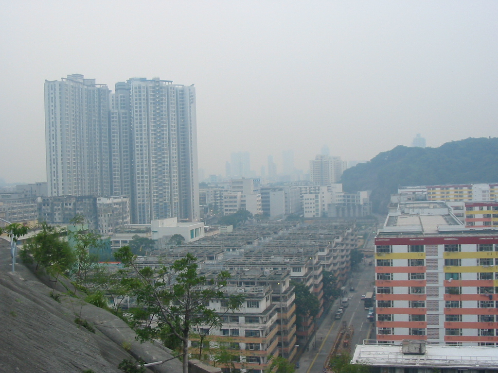 Shek Kip Mei Estate overview. Newly rebuilt Phase 1 buildings could be seen on the left.